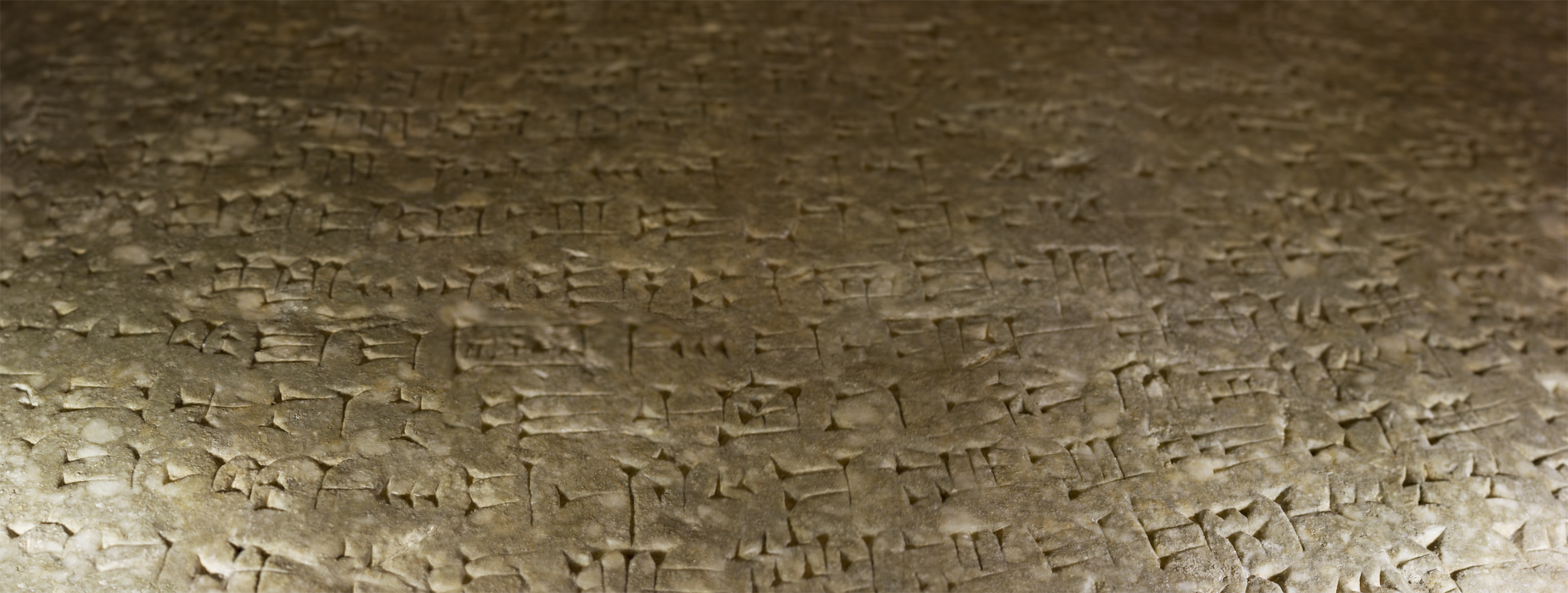 Lamassu